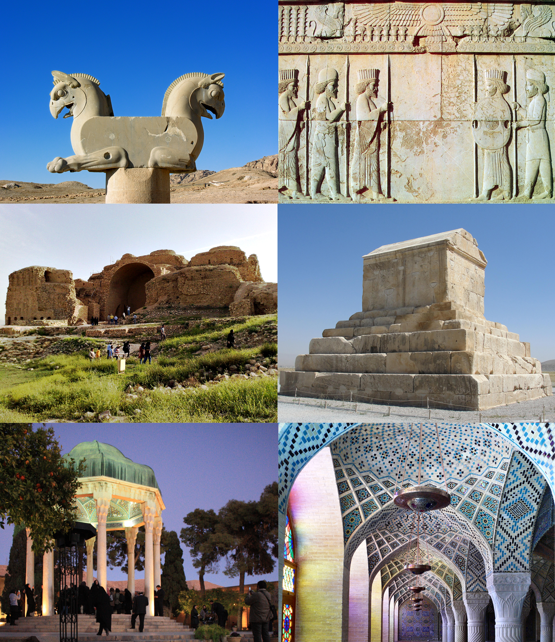 Attractions of the Pars/Fars province.